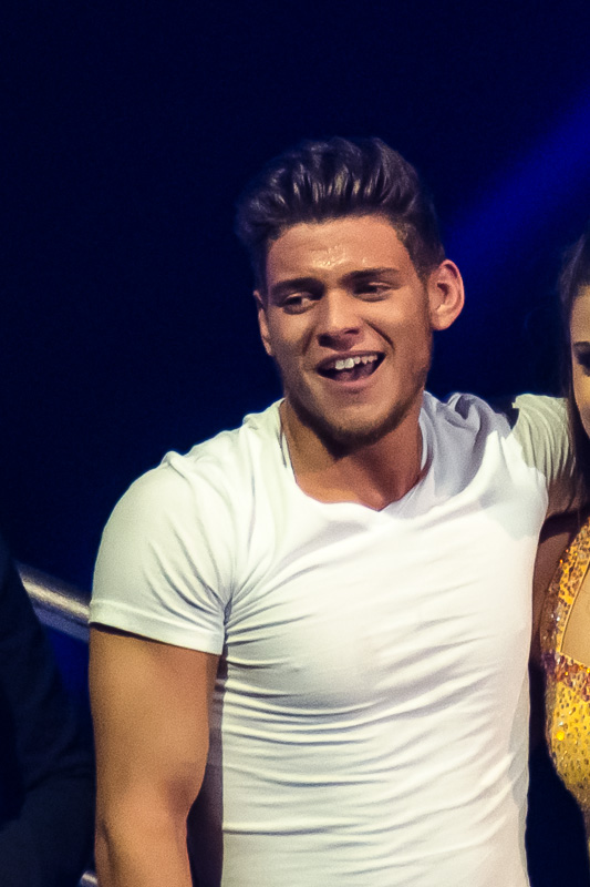 Rayane Bensetti during "Danse avec les stars" at Le Zénith de Paris